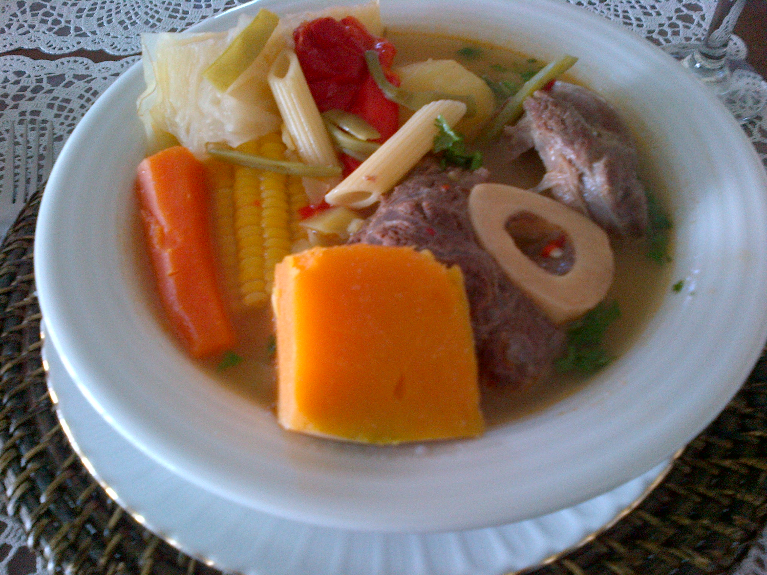 "Cazuela de osobuco", from the Chilean cuisine (one portion).